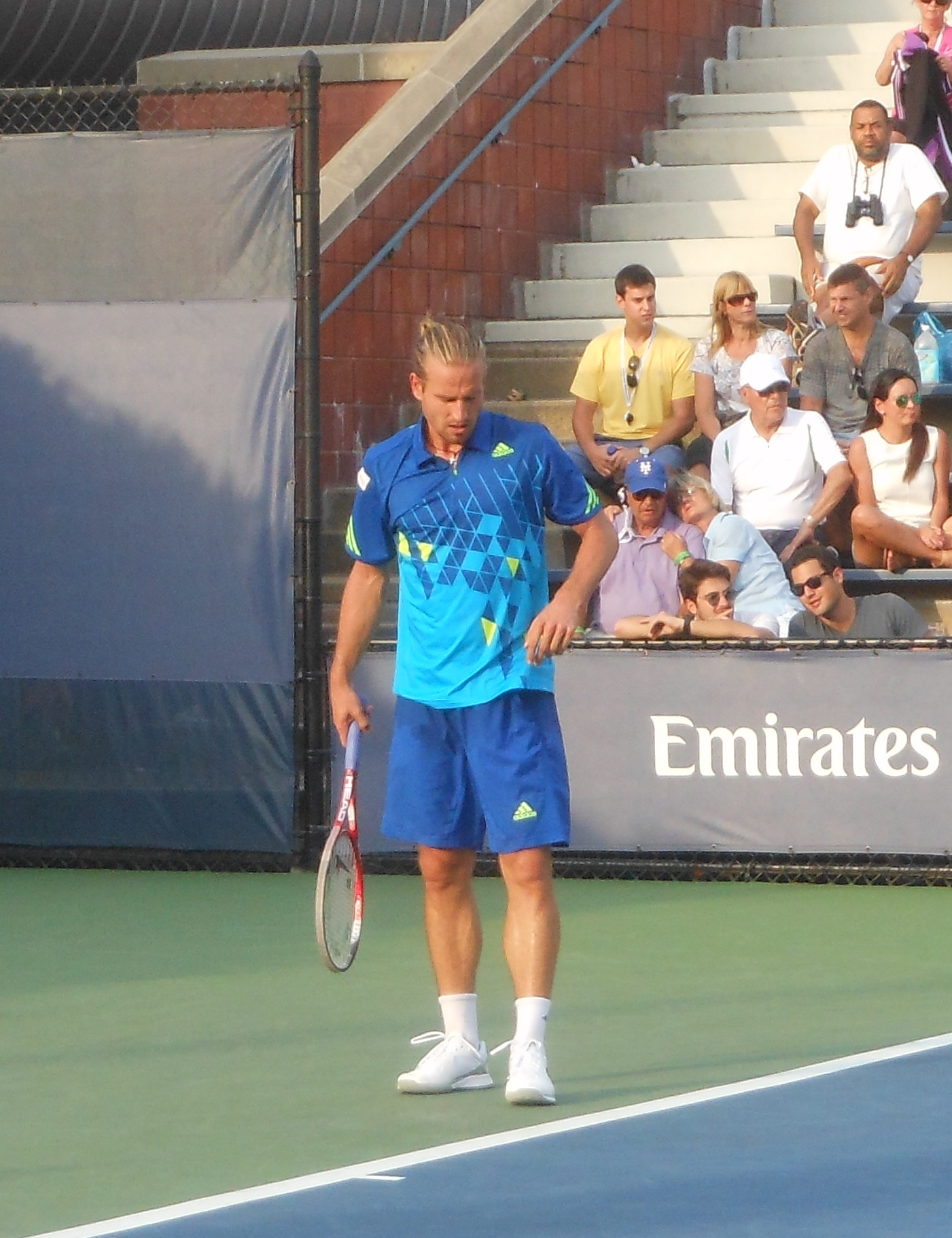 Peter Gojowczyk US Open 2013